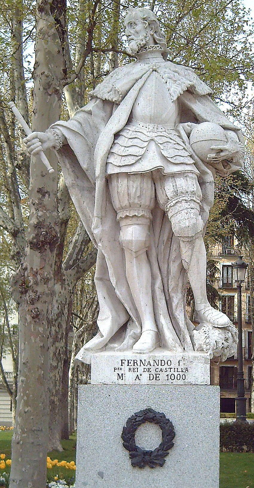 Depicted person: Ferdinand I of León (1016–1065).